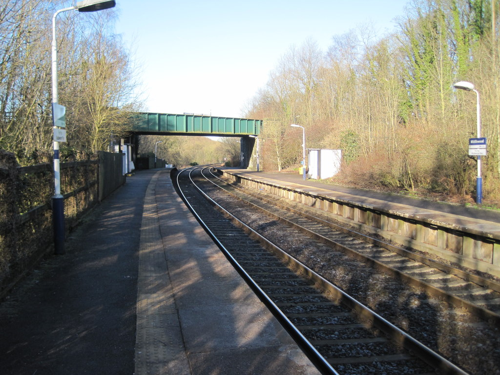 Middlewood (Low Level) railway station